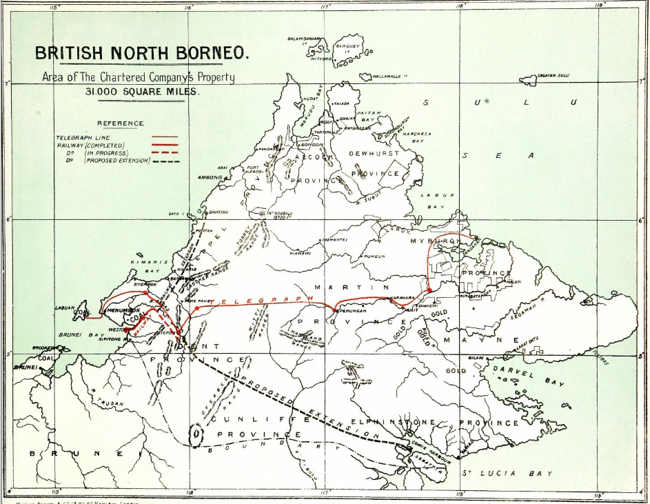 Area of the Chartered Company's Property